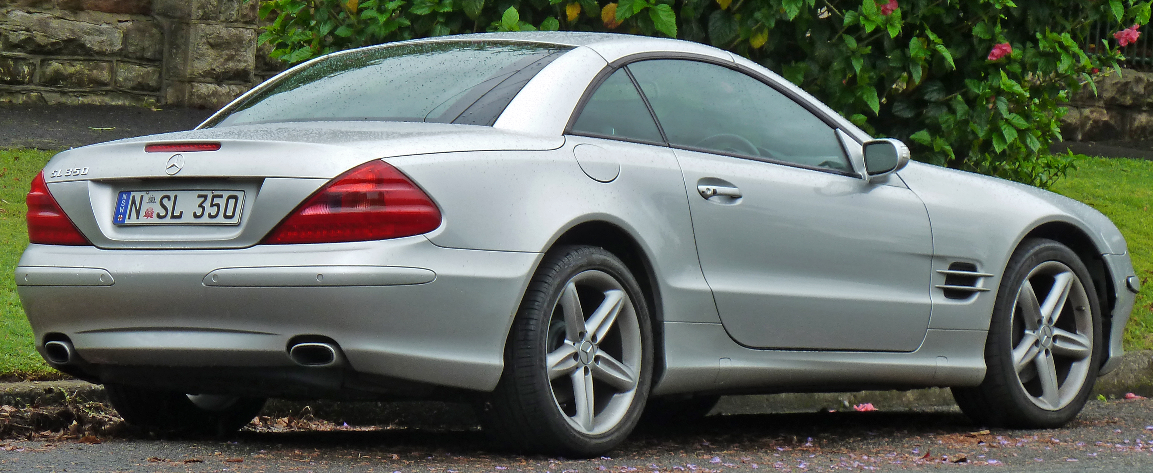 2004 Mercedes-Benz SL 350 (R 230) roadster. Photographed in Killara, New South Wales, Australia.